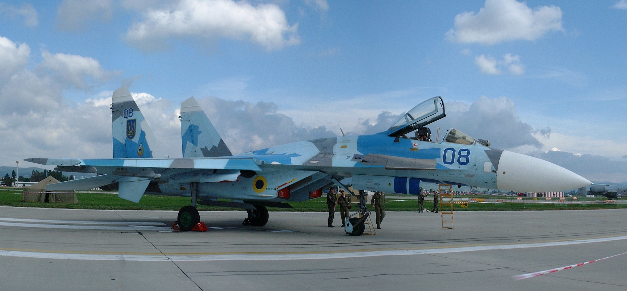 Ukrainian Su-27S at SIAD 2004 Air Show at Bratislava, Slovakia